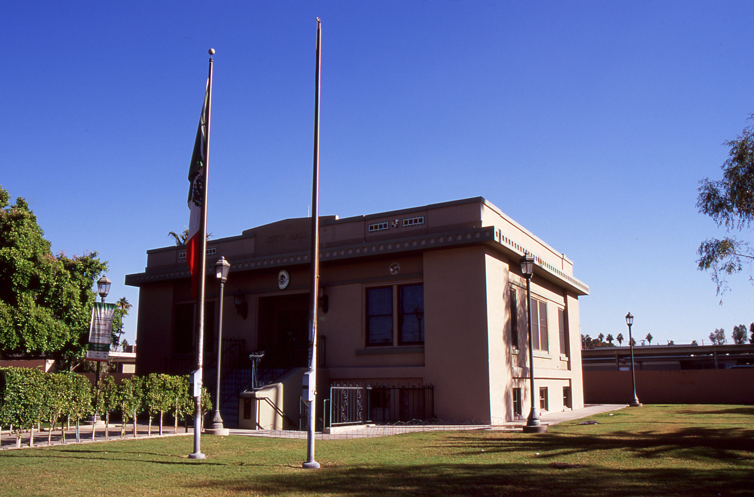 Old city hall in Calexico, California, USA. Now home of the mexican consulate.